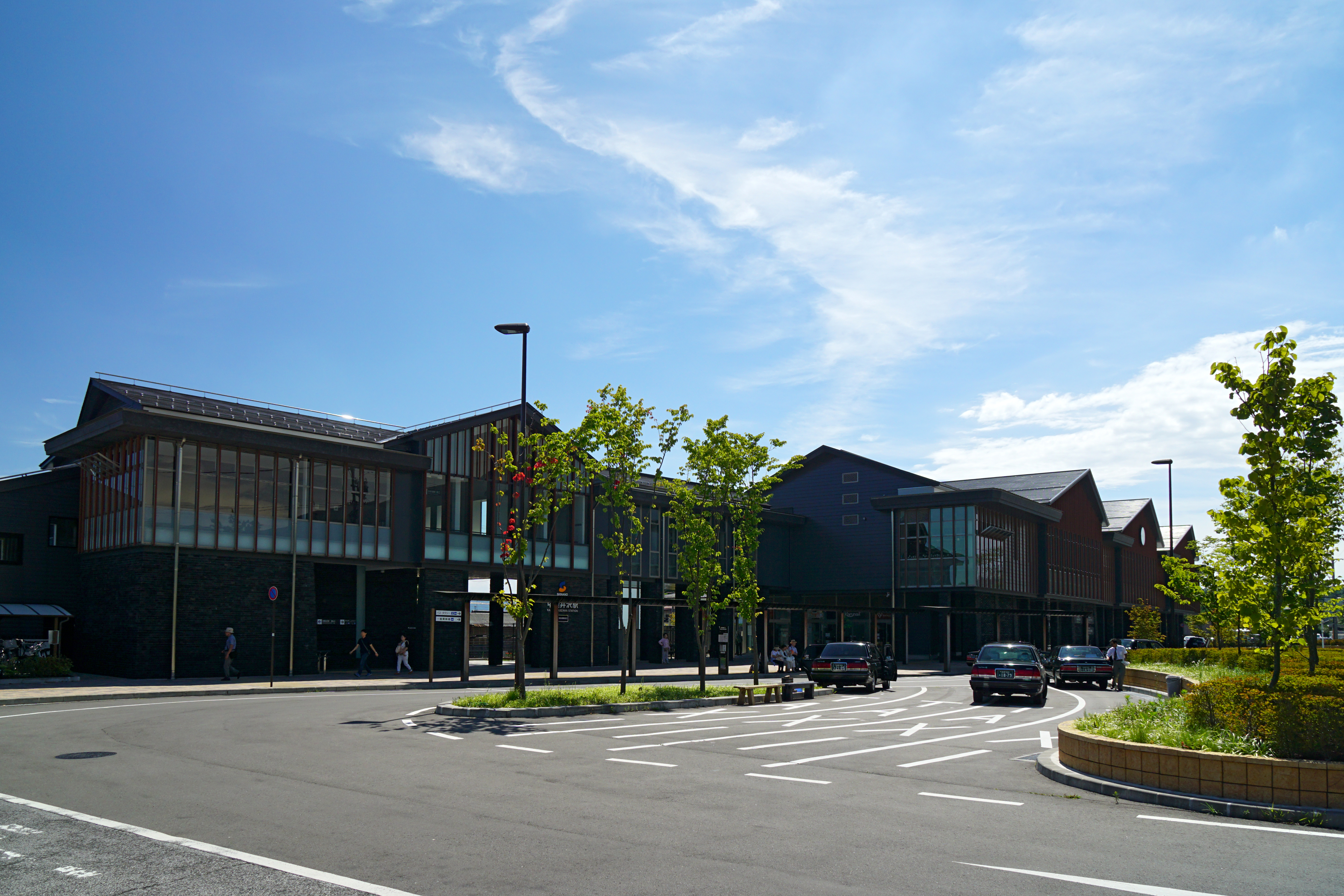 Naka-Karuizawa Station in Karuizawa, Nagano prefecture, Japan.